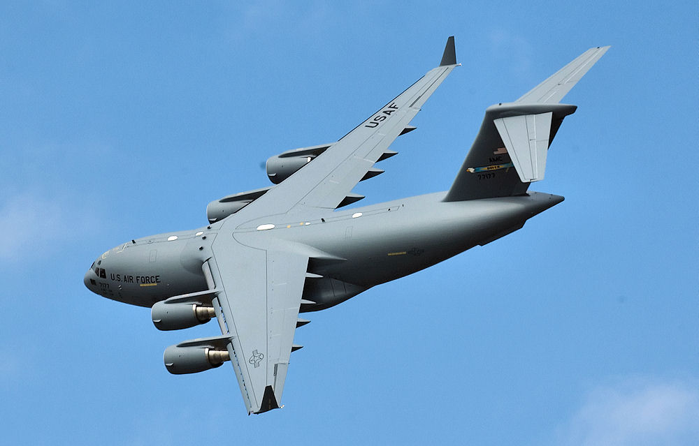 DOVER AIR FORCE BASE, Del. – Dover’s newest C-17 Globemaster III banks during a flyover before it landed here Sept. 11. The aircraft, delivered on the seventh anniversary of 9/11, is Dover’s twelfth C-17. Team Dover will receive its thirteenth and final C-17 Oct. 8. (U.S. Air Force photo/Jason Minto)